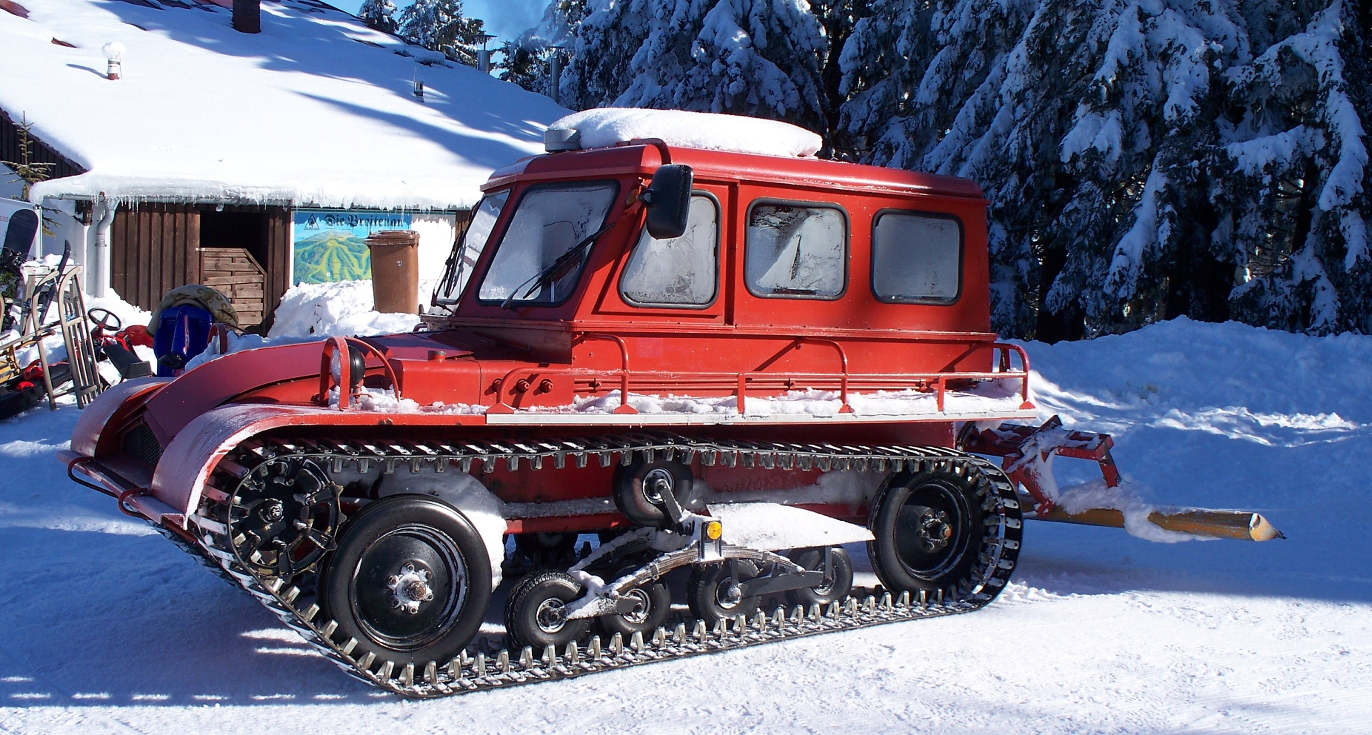 Snow-Trac compact snowcar on the Geißkopf (Bavaria, Germany) in 2010.